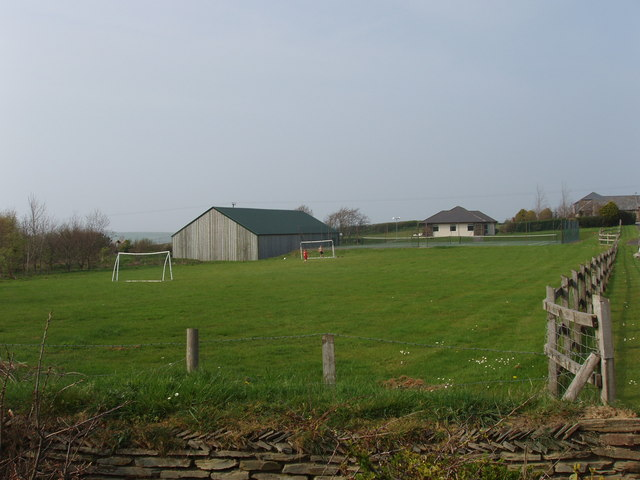 Playing field of holiday cottages, by Box's Shop This appears to be a large enough group of holiday cottages to have a playing field and other shared facilities - it is Kennacott Court .